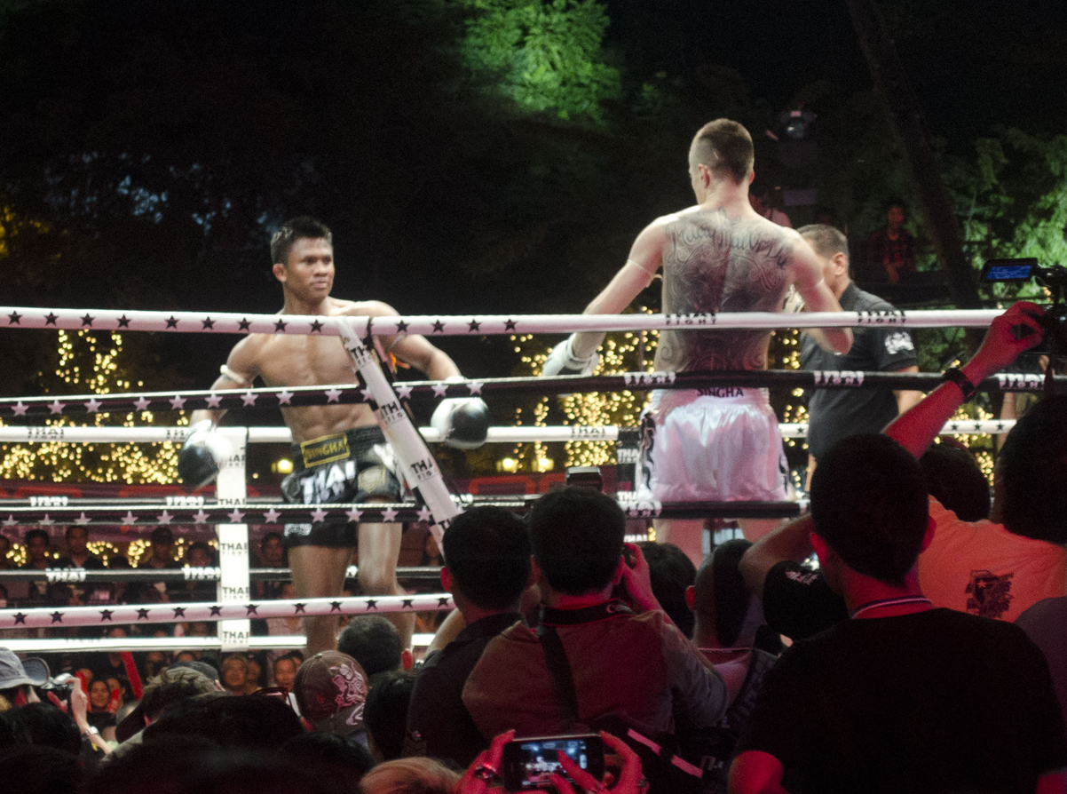 Buakaw vs Vitaly